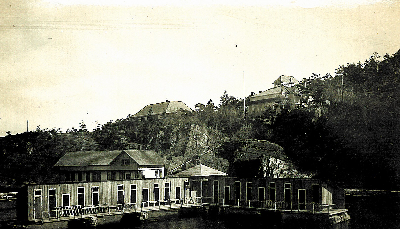 Badehus